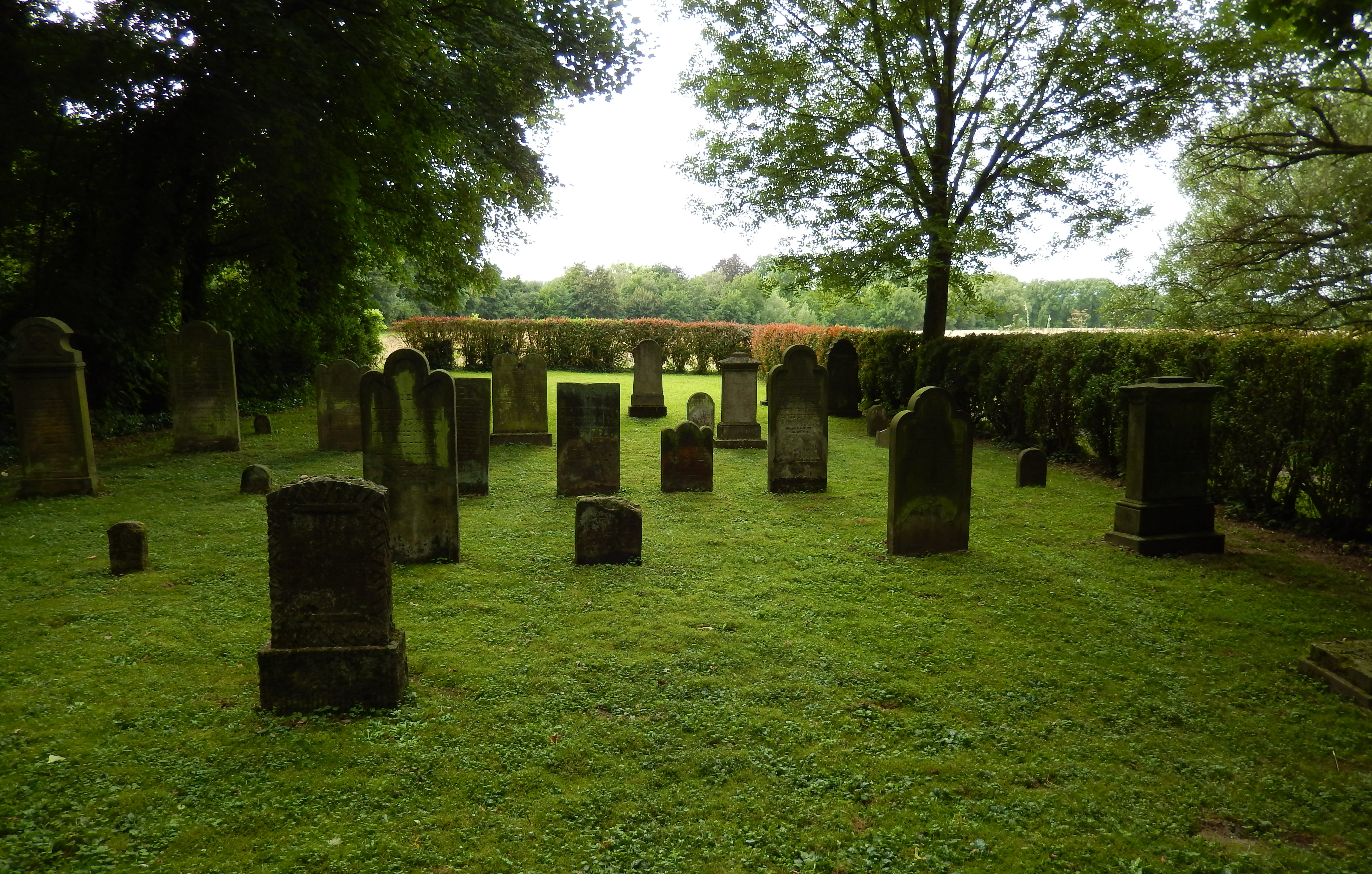 Jewish cemetery in Lauenau, Germany.